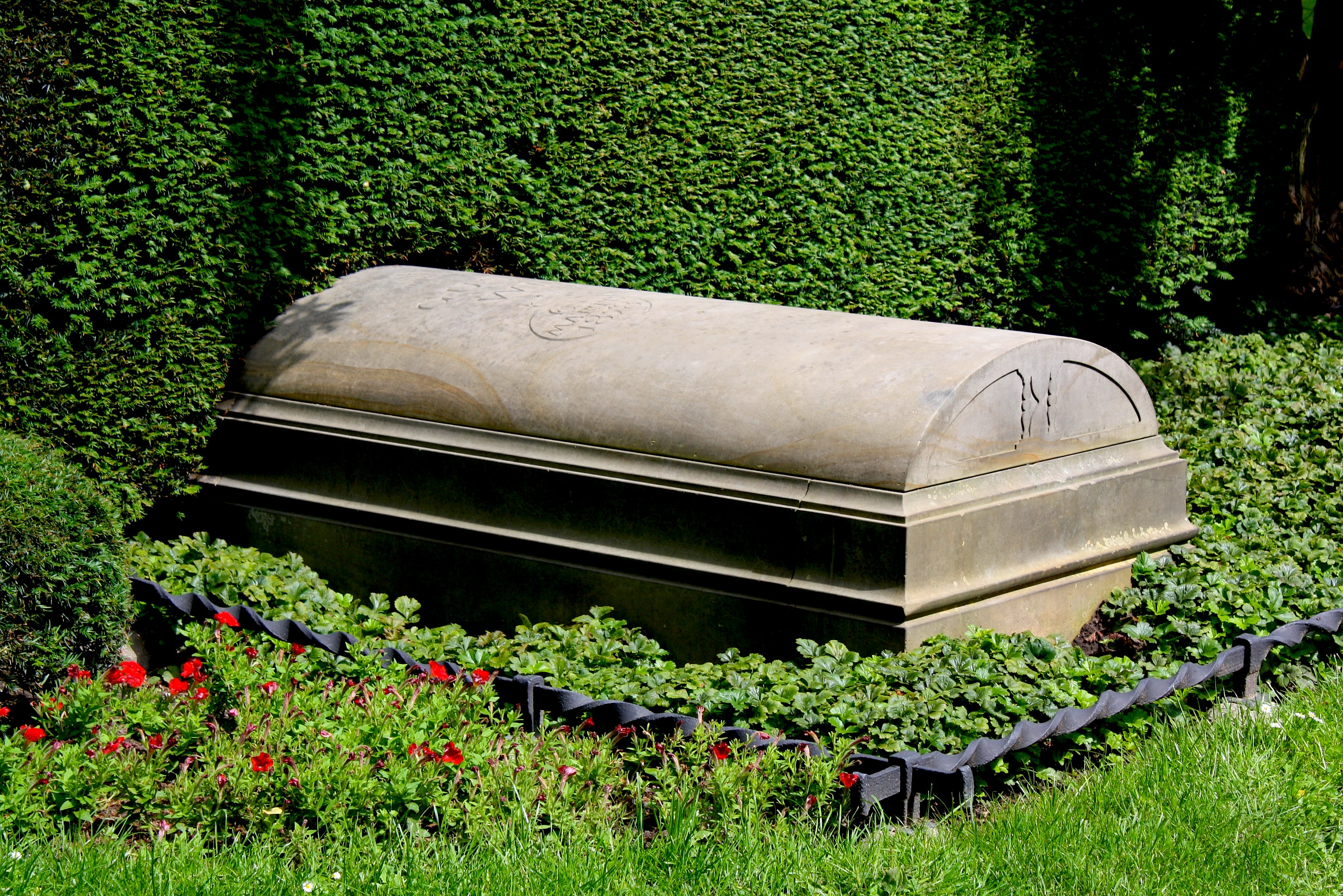 The grave of Gustav Wied, the Gråbrødre Cemetery, Roskilde, Denamark